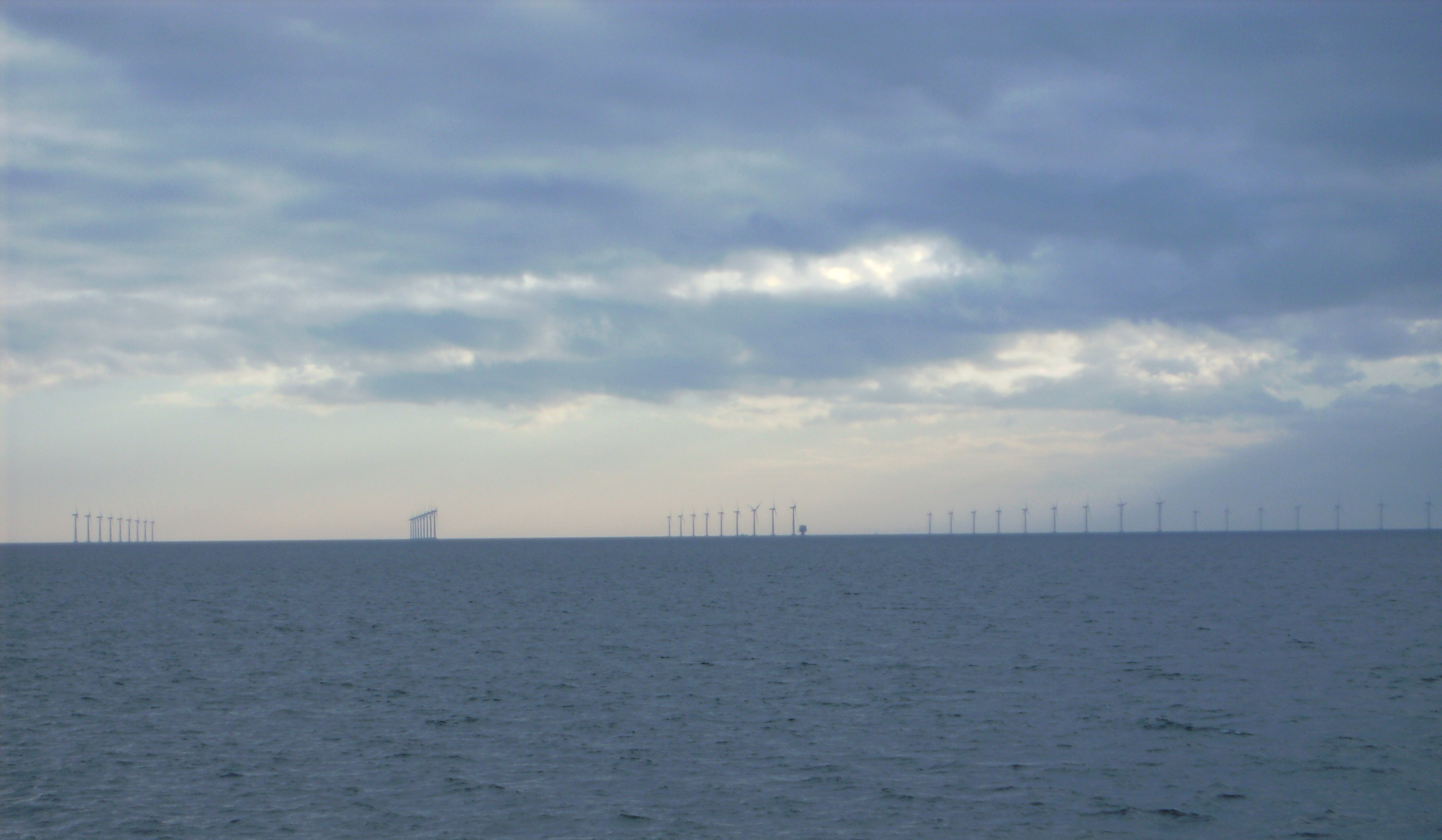 72 windmills in the sea south of Nysted, Denmark - seen from the shore